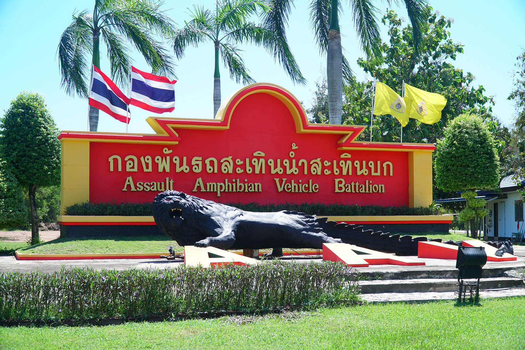 Assault Amphibian Vehicle Battalion